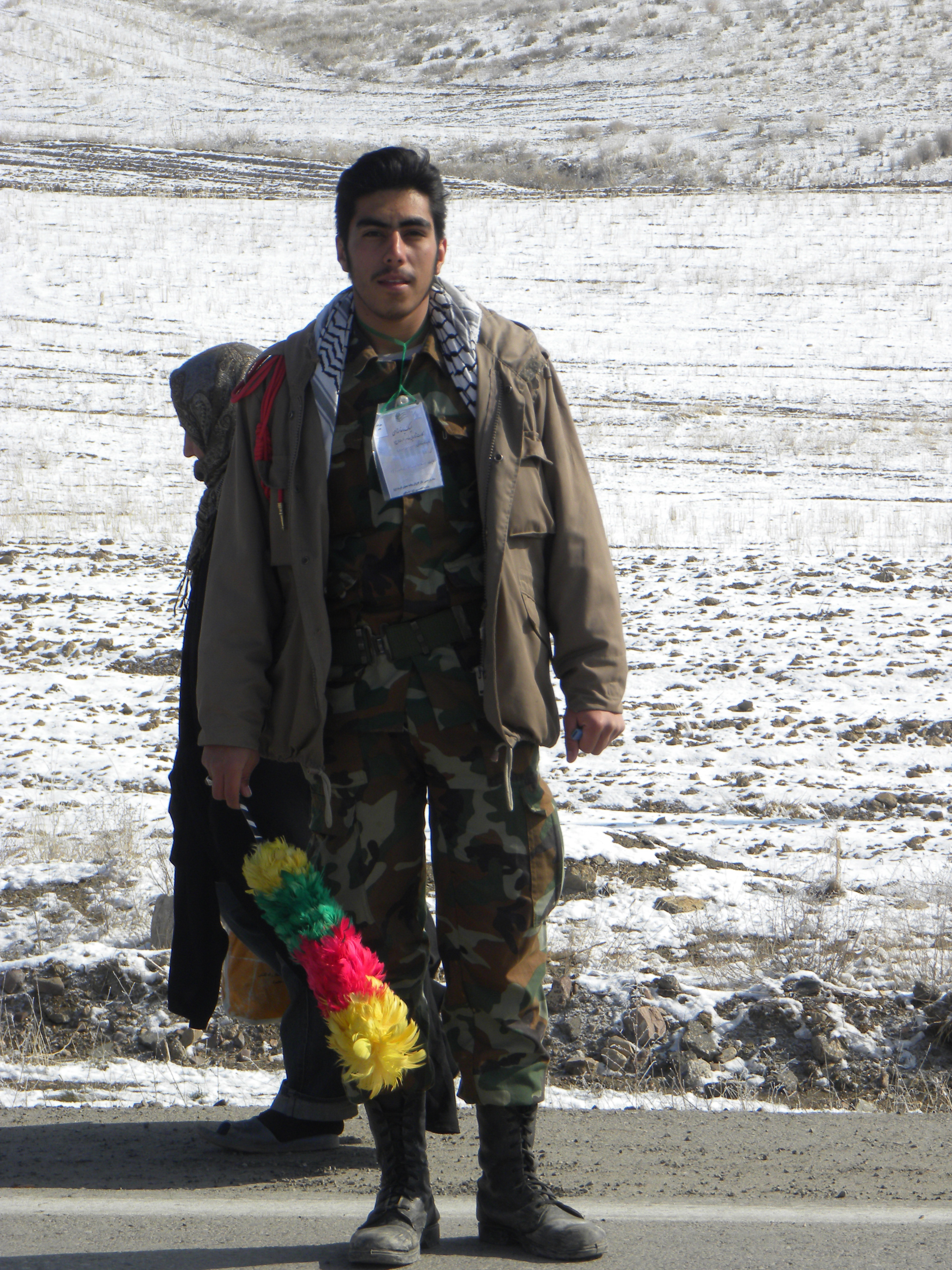 Basij Soldier guid pedestrian pilgrim to Mashhad